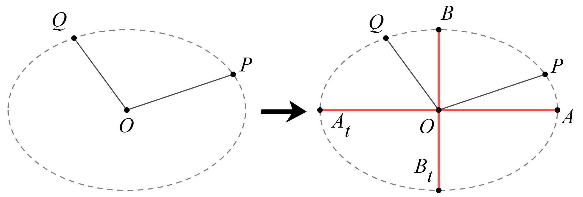 Data, description, proof of Rytz construction